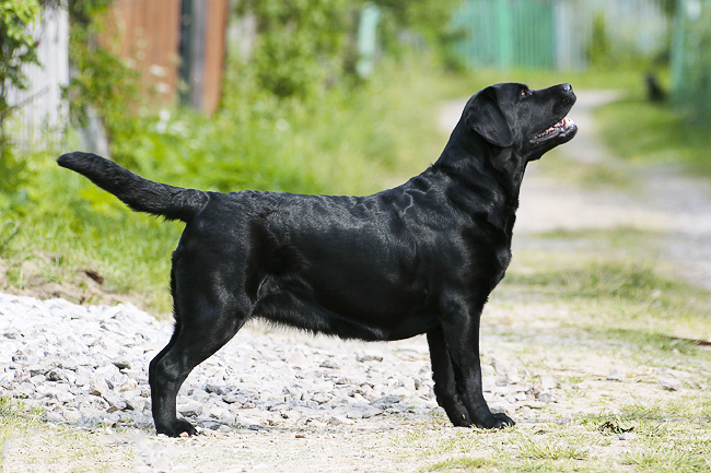 labrador-retriewer